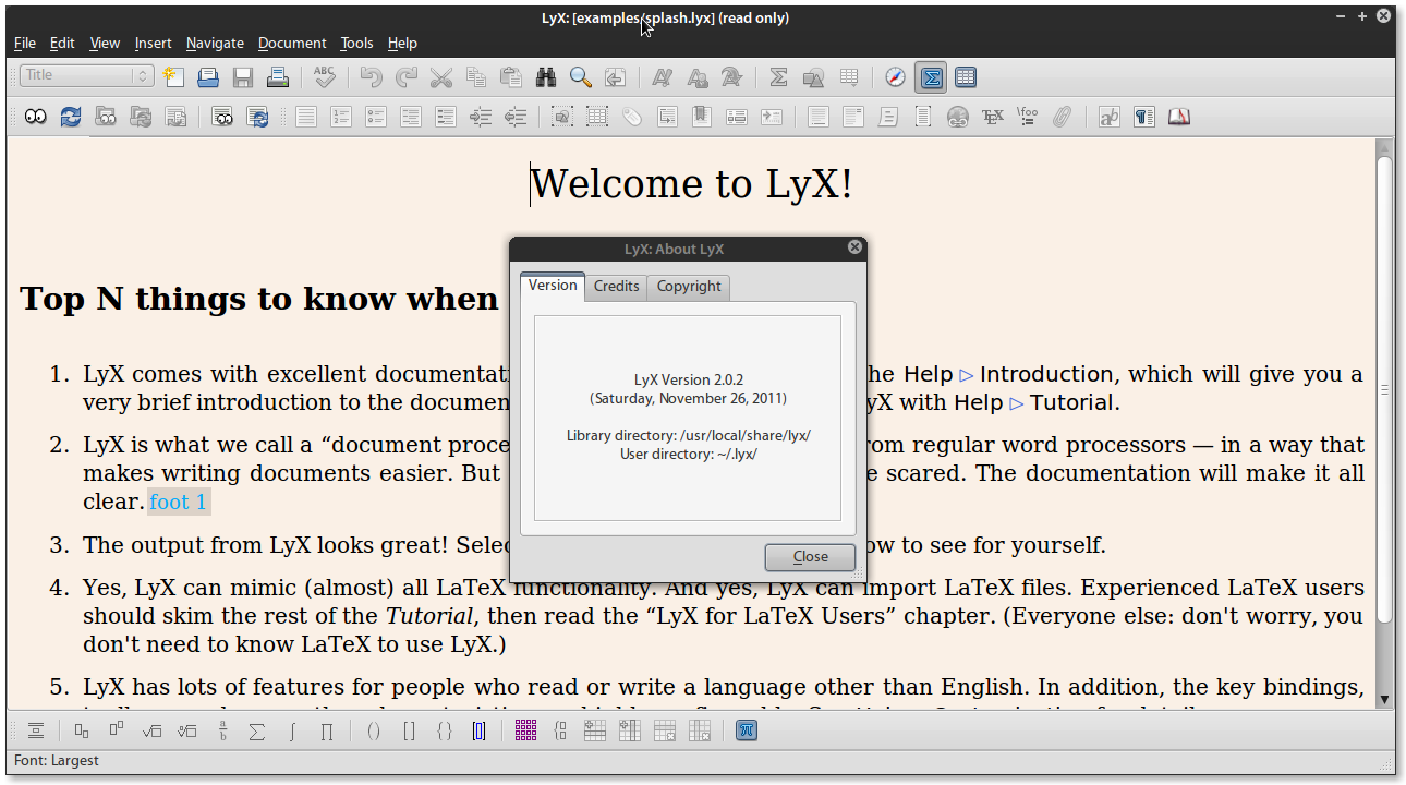 LyX under GNOME 2.x on Debian GNU/Linux.